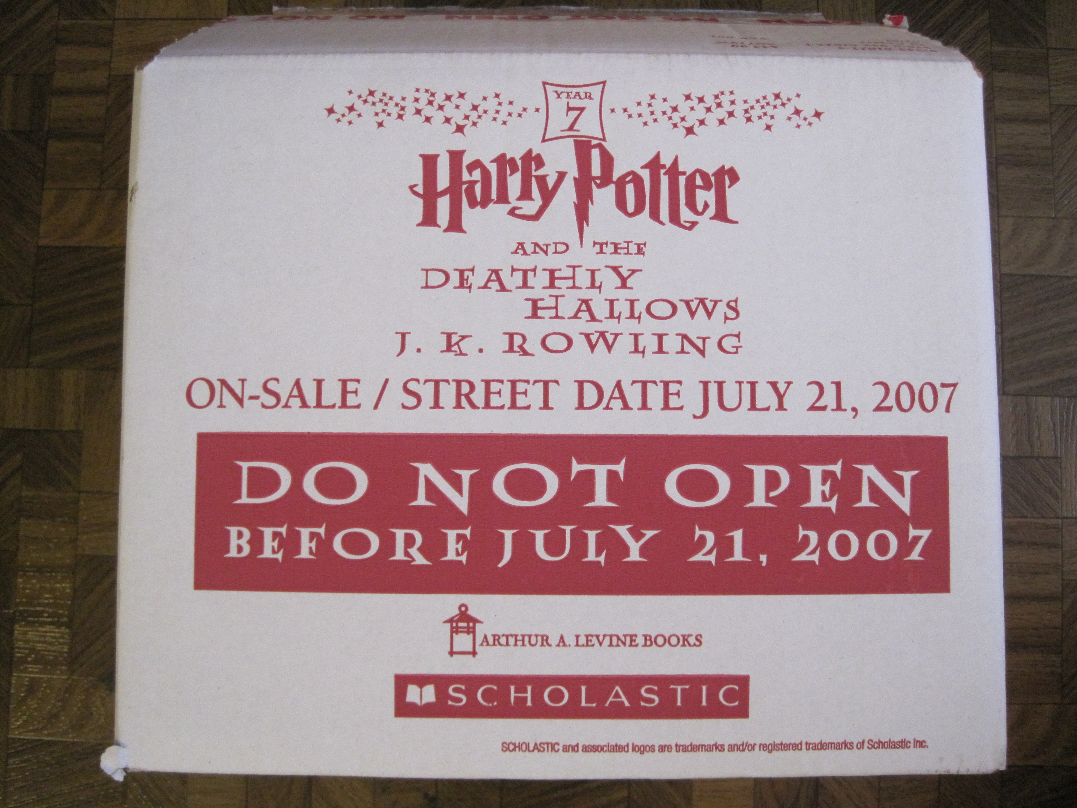 The Scholastic box in which the first American edition of Harry Potter and the Deathly Hallows was packaged. Each box held 10 books. This particular box was obtained from Costco following the book's release.